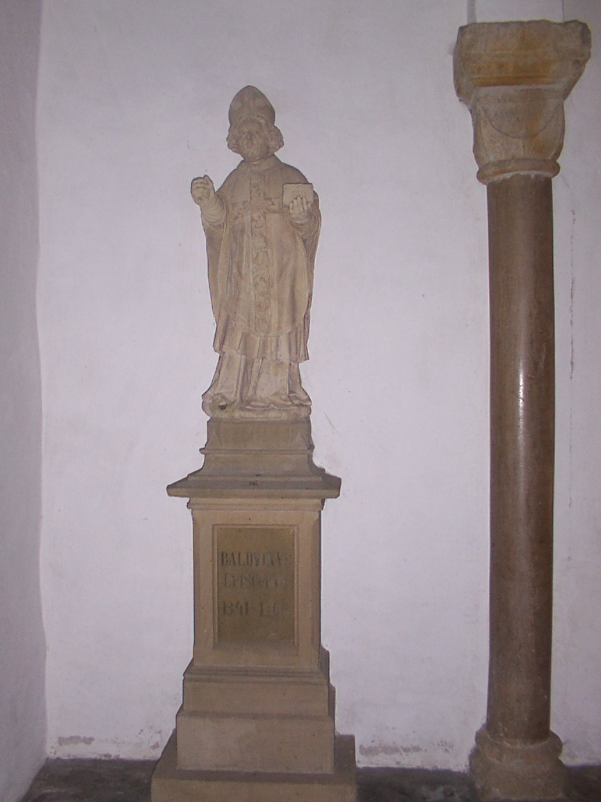 Statue of bishop Baldwin in the atrium of the Paderborn cathedral.